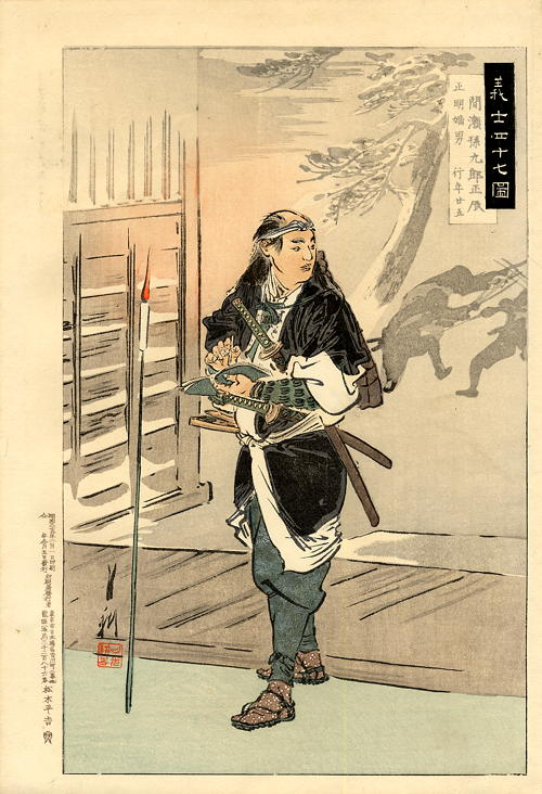 Ronin are masterless samurai. Chushingura is the true story of 47 samurai who became masterless in 1701, after their lord had been forced to commit ritual suicide (seppuku) for assaulting a court official who had insulted him. They avenged him by killing the court official after patiently planning for over a year. They were themselves then forced to commit seppuku.